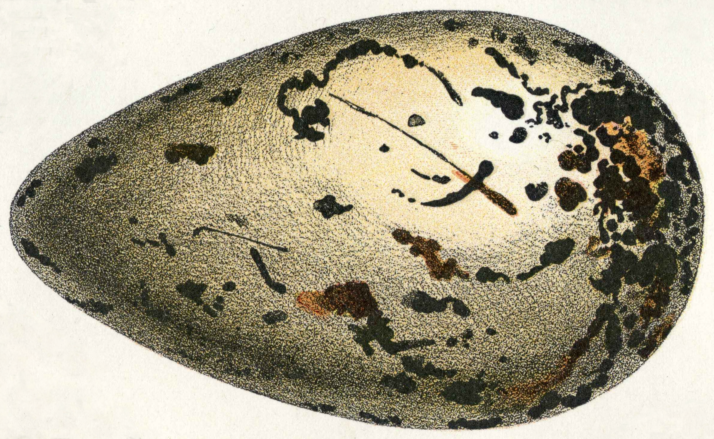 Egg of great auk